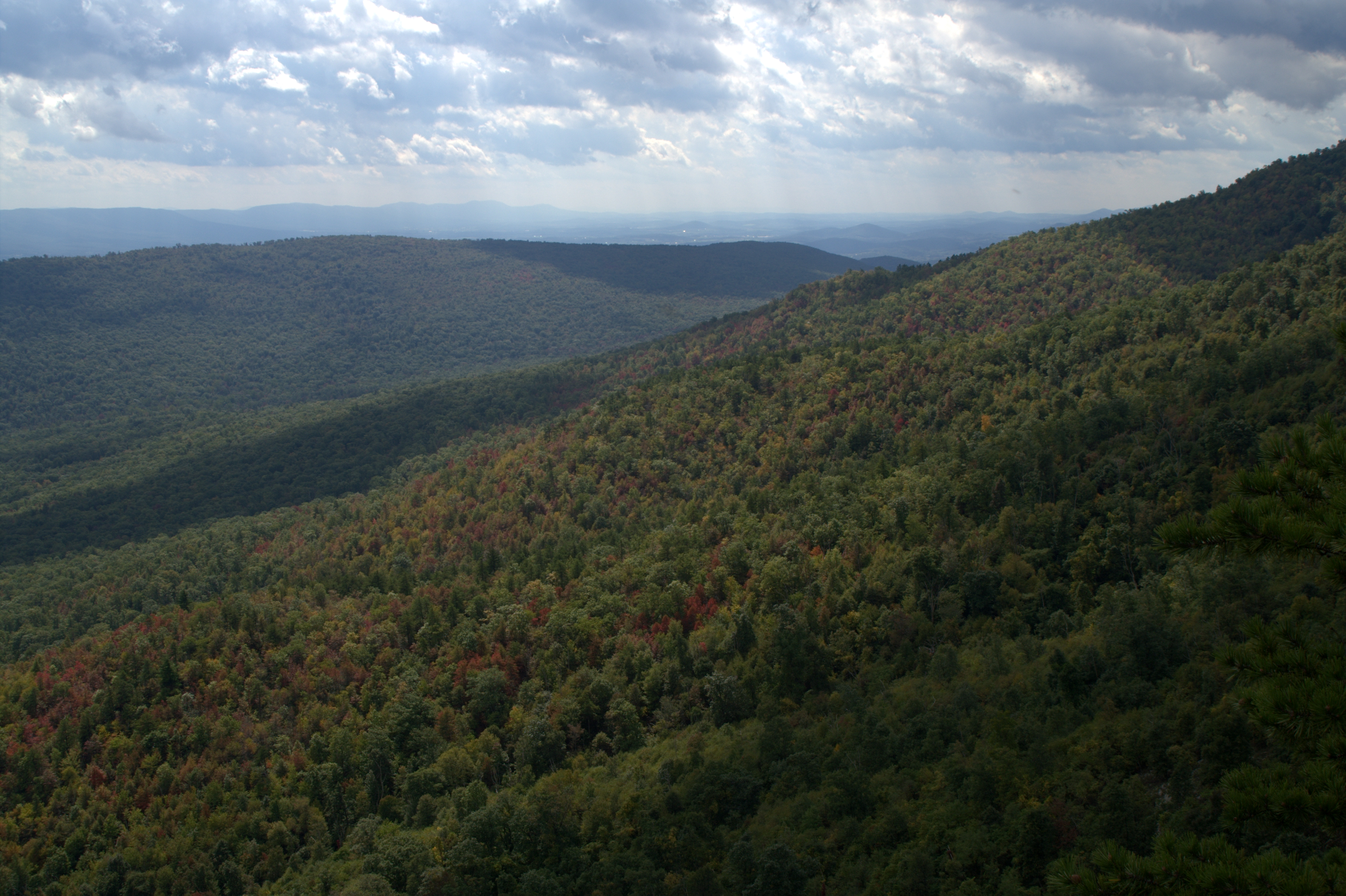 View from the White Rocks on Little Sluice Mountain, in George Washington National Forest, Virginia, USA.